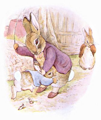 Illustration from children's book The Tale of Benjamin Bunny